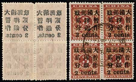 red 19